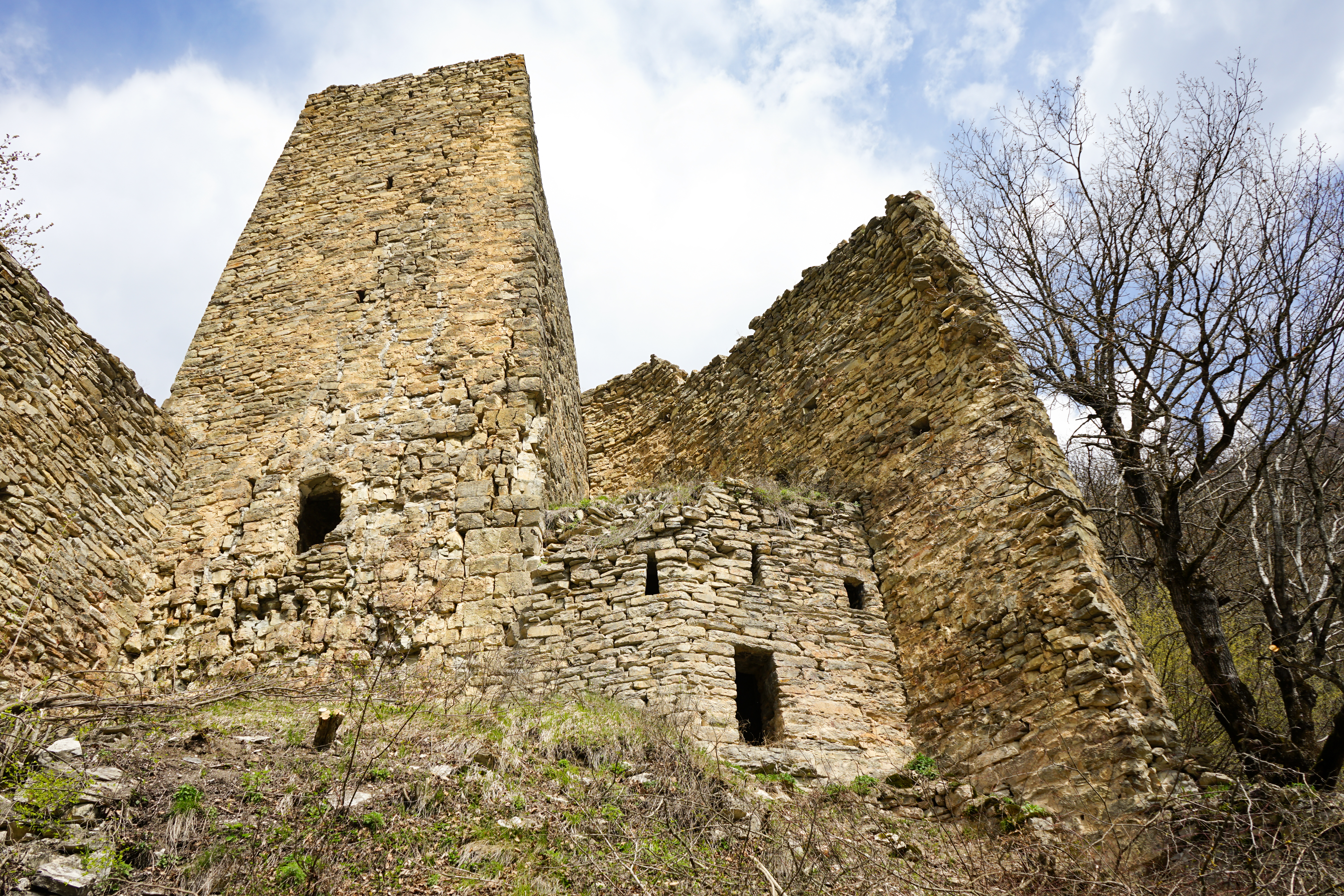 Mere Fortress near Buchaani Village, Mtskheta-Mtianeti, Georgia